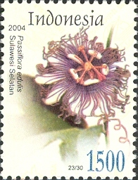 Stamps of Indonesia